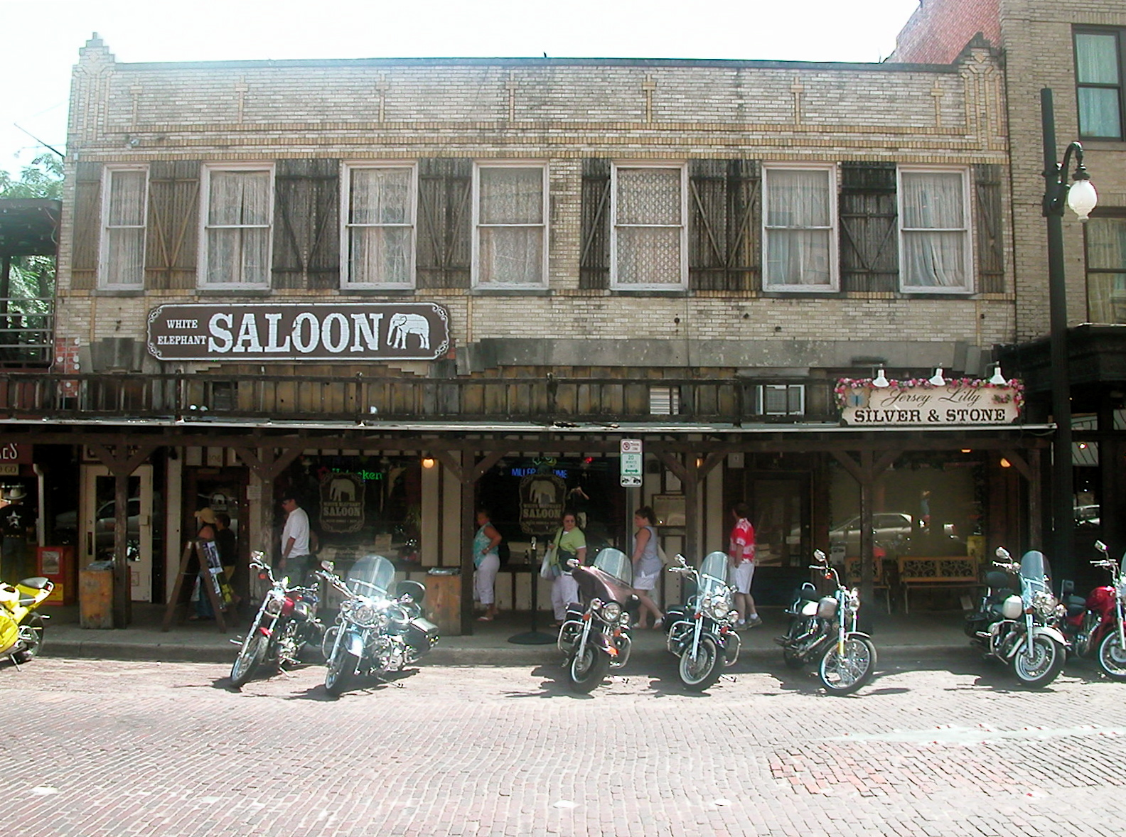 Saloon at the Stockyards, a tourist cowboy town near Forth Worth, Texas.